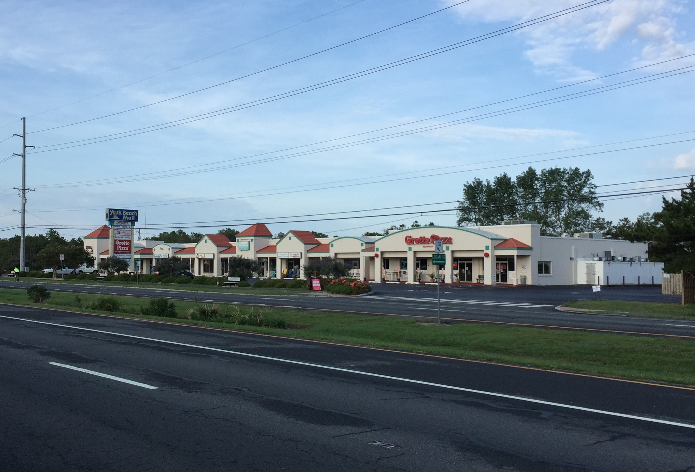 York Beach Mall in South Bethany, DE